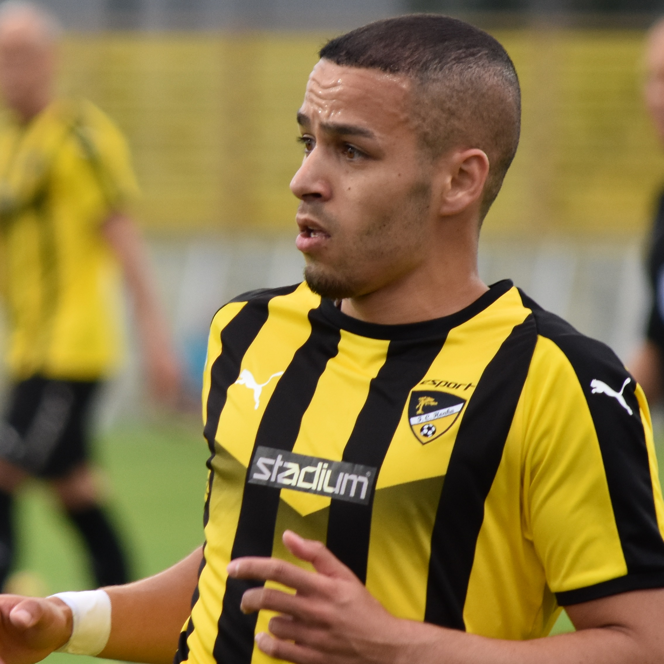 Association football player Ahmed El-Amrani (FC Honka)